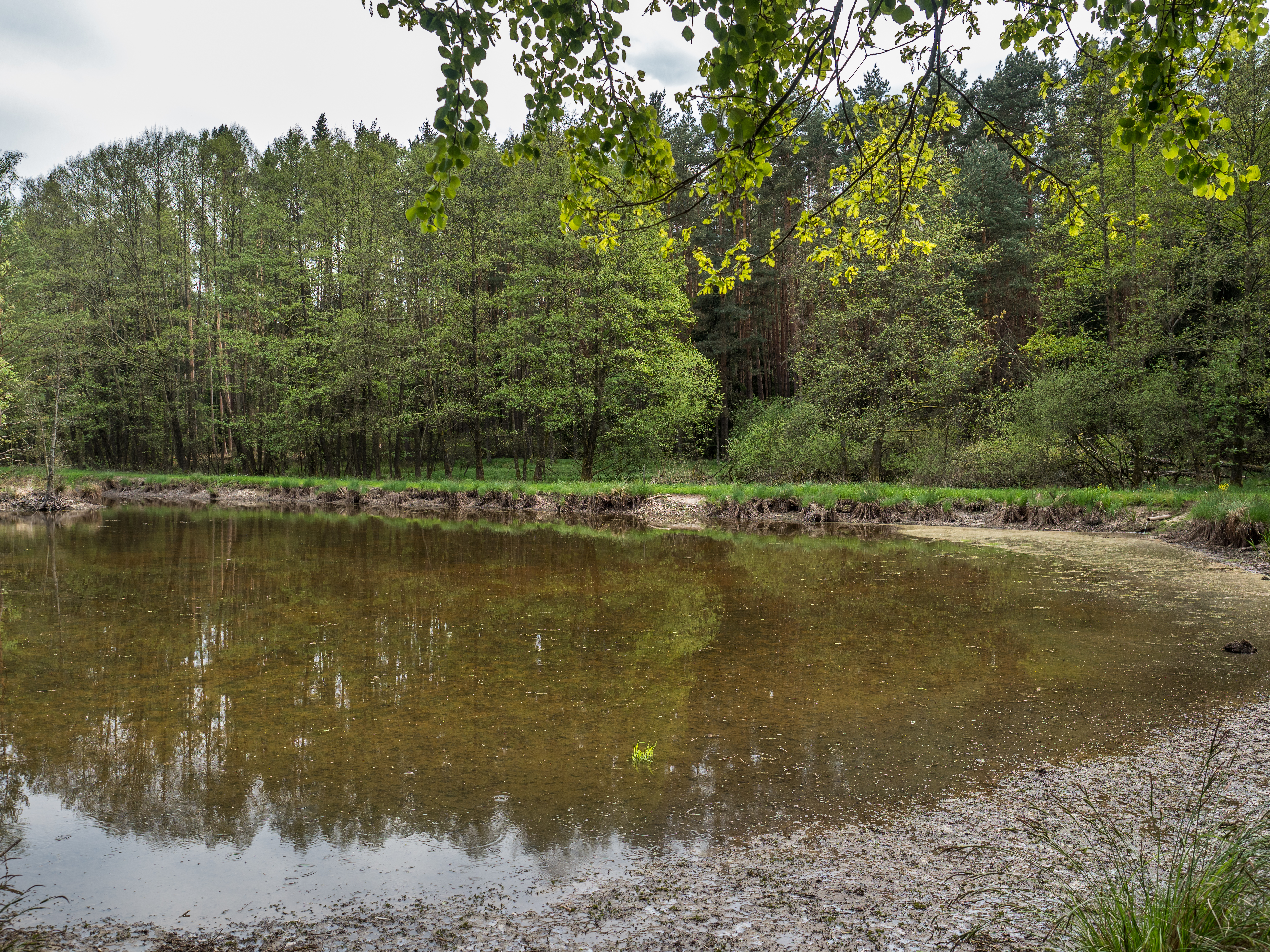 Nature reserve Langenbachgrund